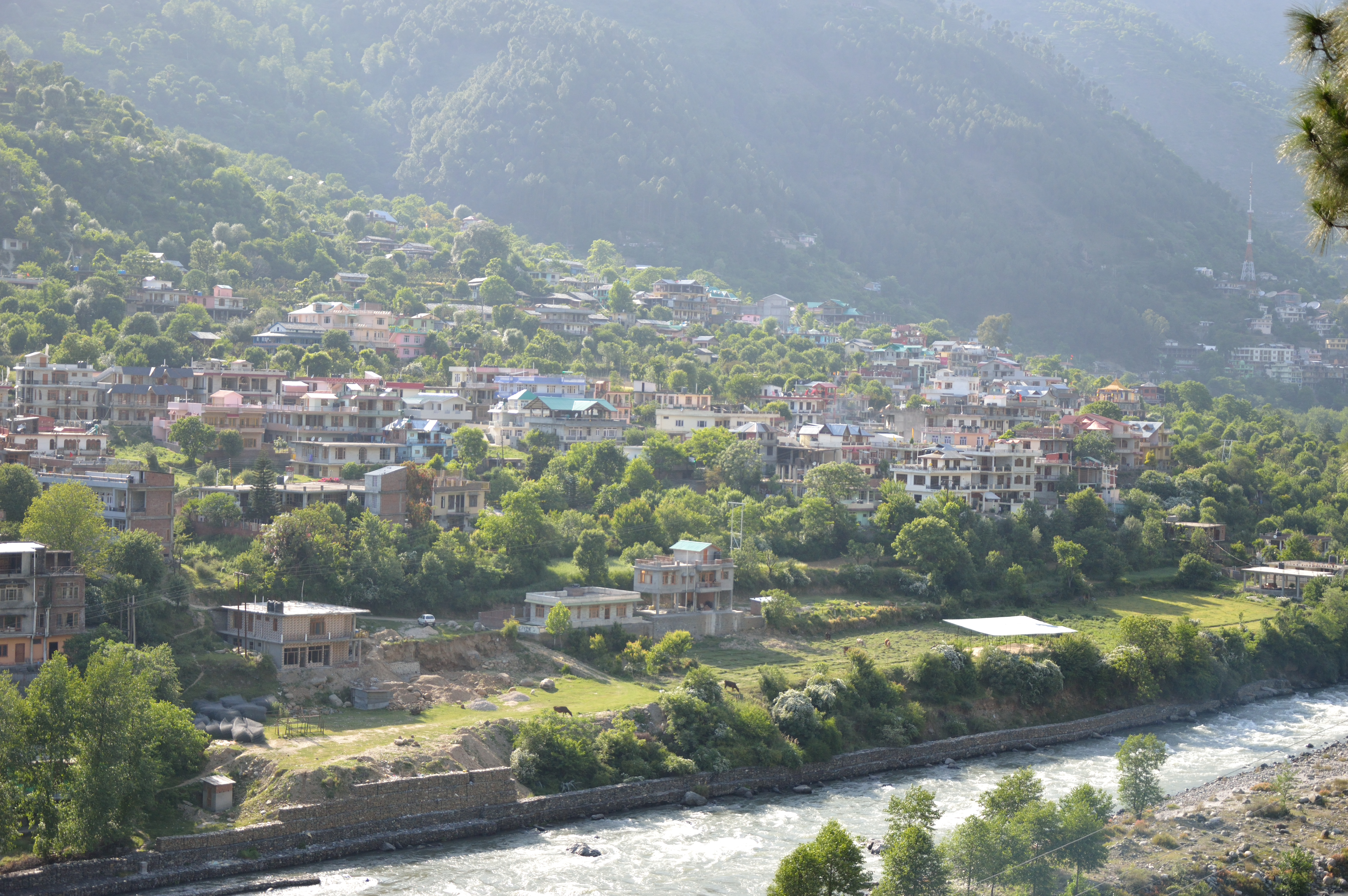 Photographed in Himachal Pradesh.